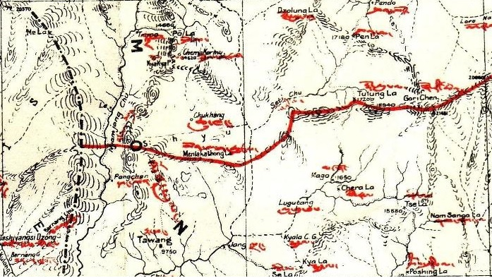 This is a cropped version of File:McMahon Line Simla Accord Treaty 1914 Map1.jpg, highlighting the Tawang sector; the site of Sino-Indian border conflict in 1962